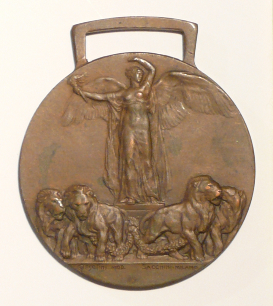 Interallied Victory Medal WWI - Italy - recto